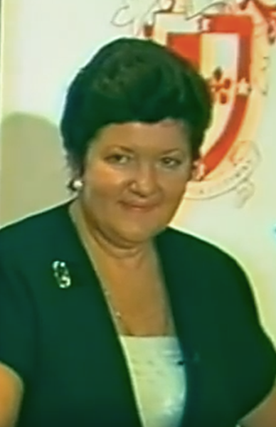 Premier Joan Kirner at the opening of the Swinburne University of Technology, in 1992. Image is a screenshot of her lecture, and has been enhanced (sharpened and recoloured)